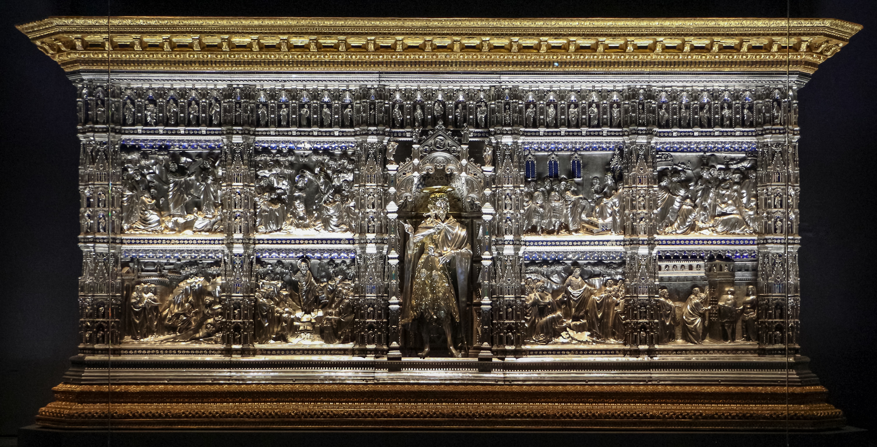 Altare di San Giovanni Battista